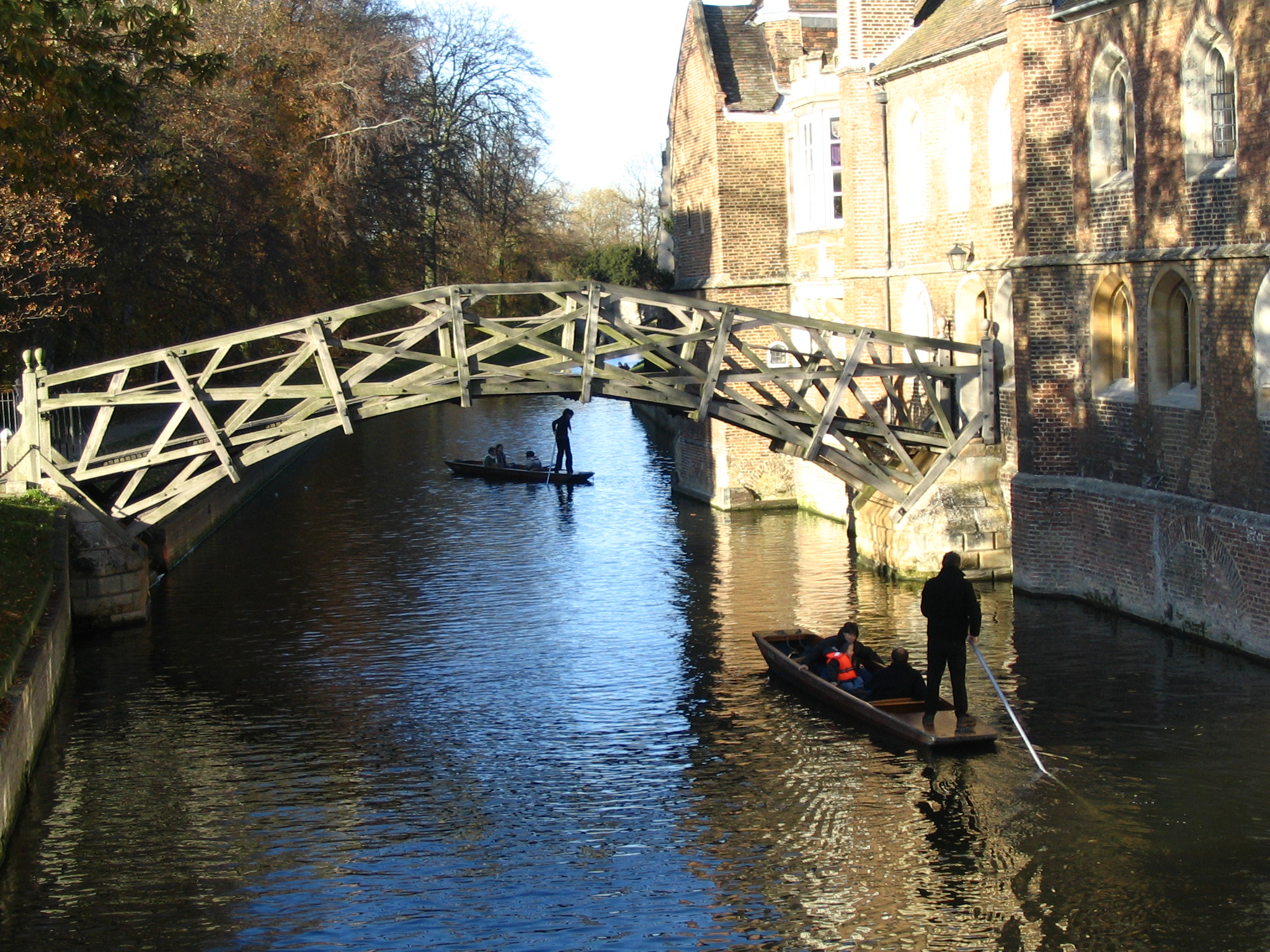 Mathematical Bridge